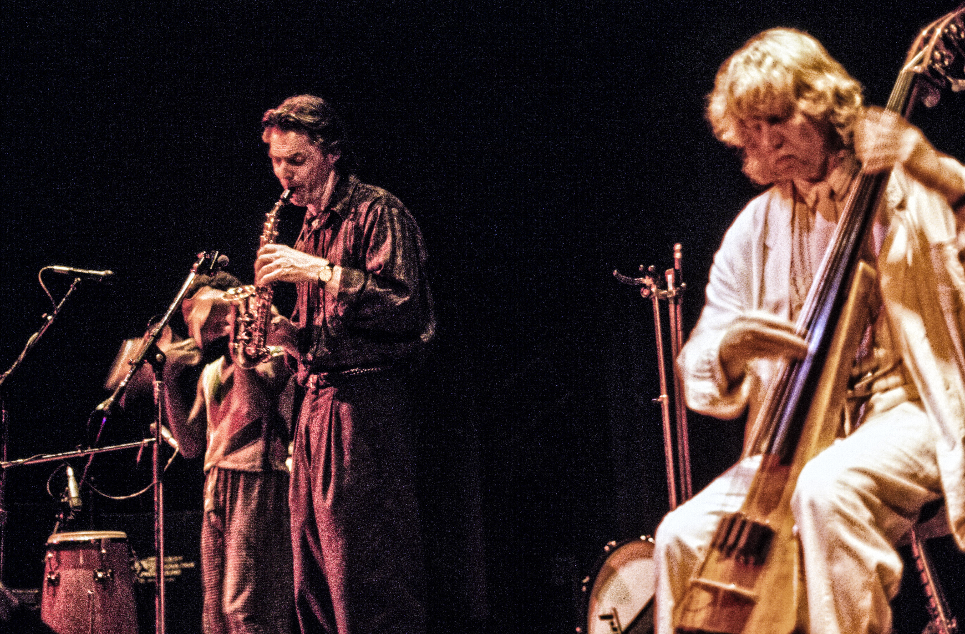 Jan Gabarek, Eberhard Weber and Naná Vasconcelos Vancouver, BC, Canada 1987